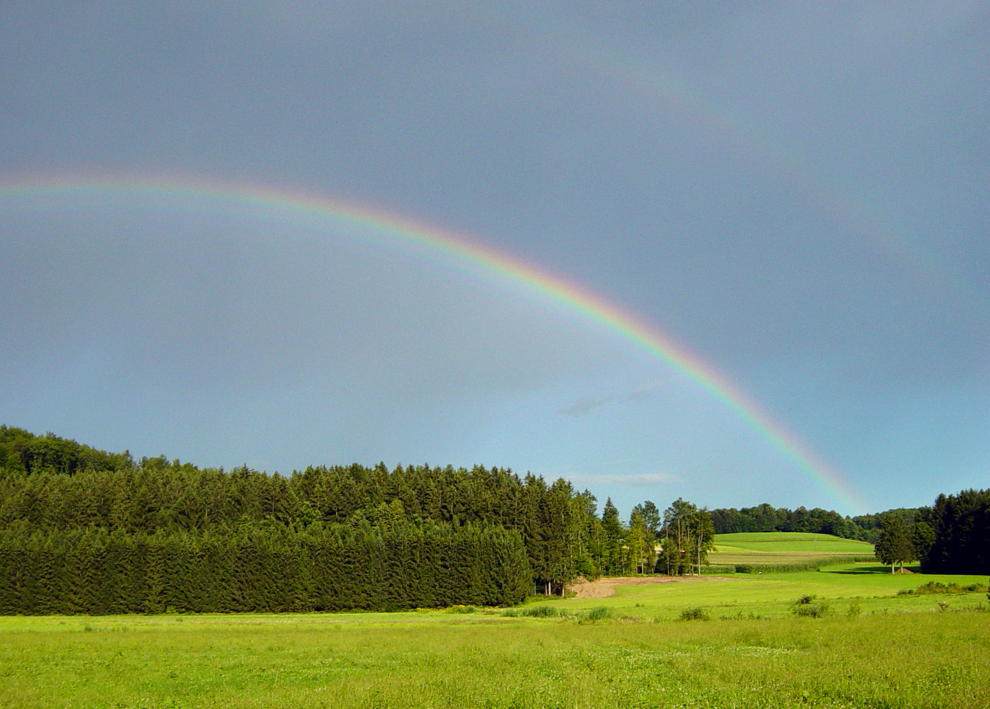 This beautiful weather happened near Račje selo in the dolenjska region in Slovenia. I had the luck to enjoy this duble entire rainbow for two hours :)